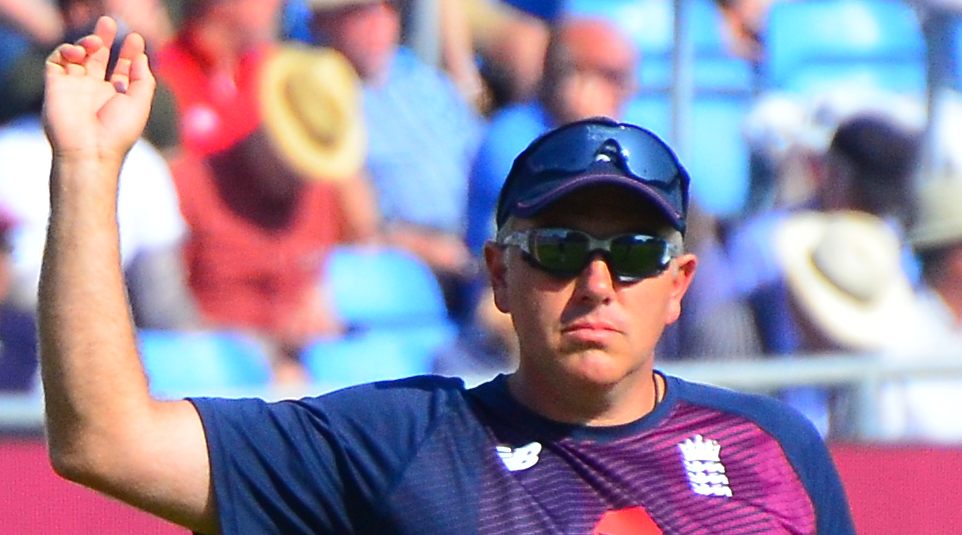 England coach Chris Silverwood